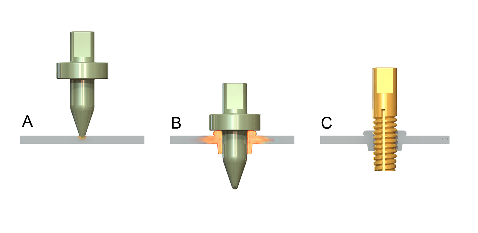 Flow-drill process